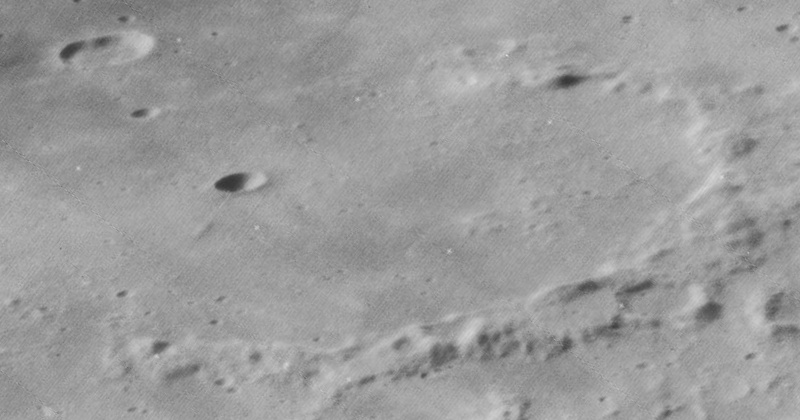 Oblique view of Gärtner, facing west, on the moon.